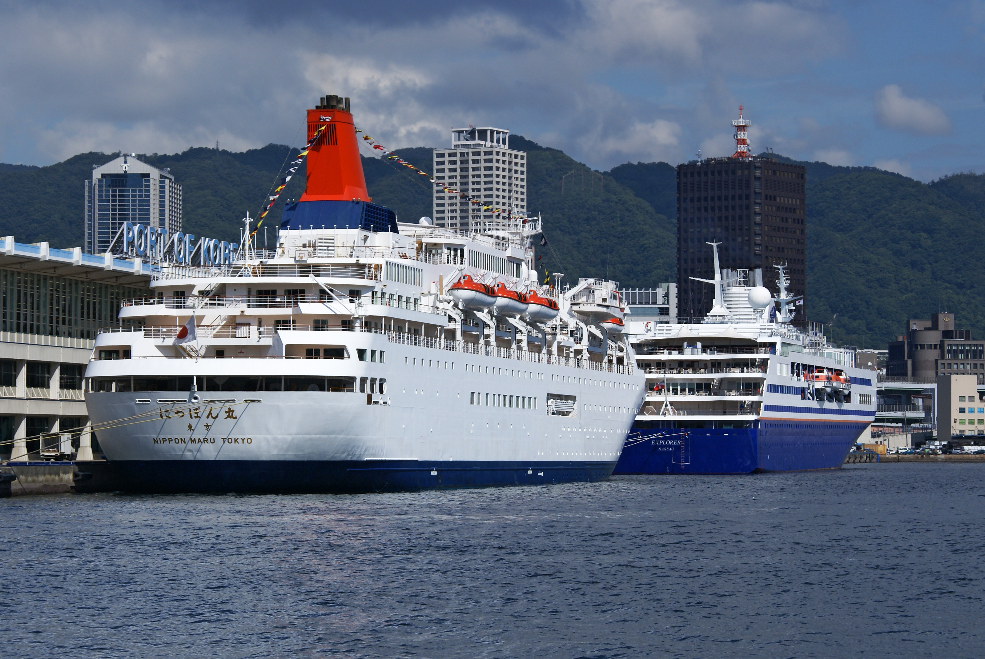 "Nipponmaru" and "Explorer" who anchors at "Kobe Port Terminal" of the Kobe harbor ( Kobe, Hyogo, Japan)